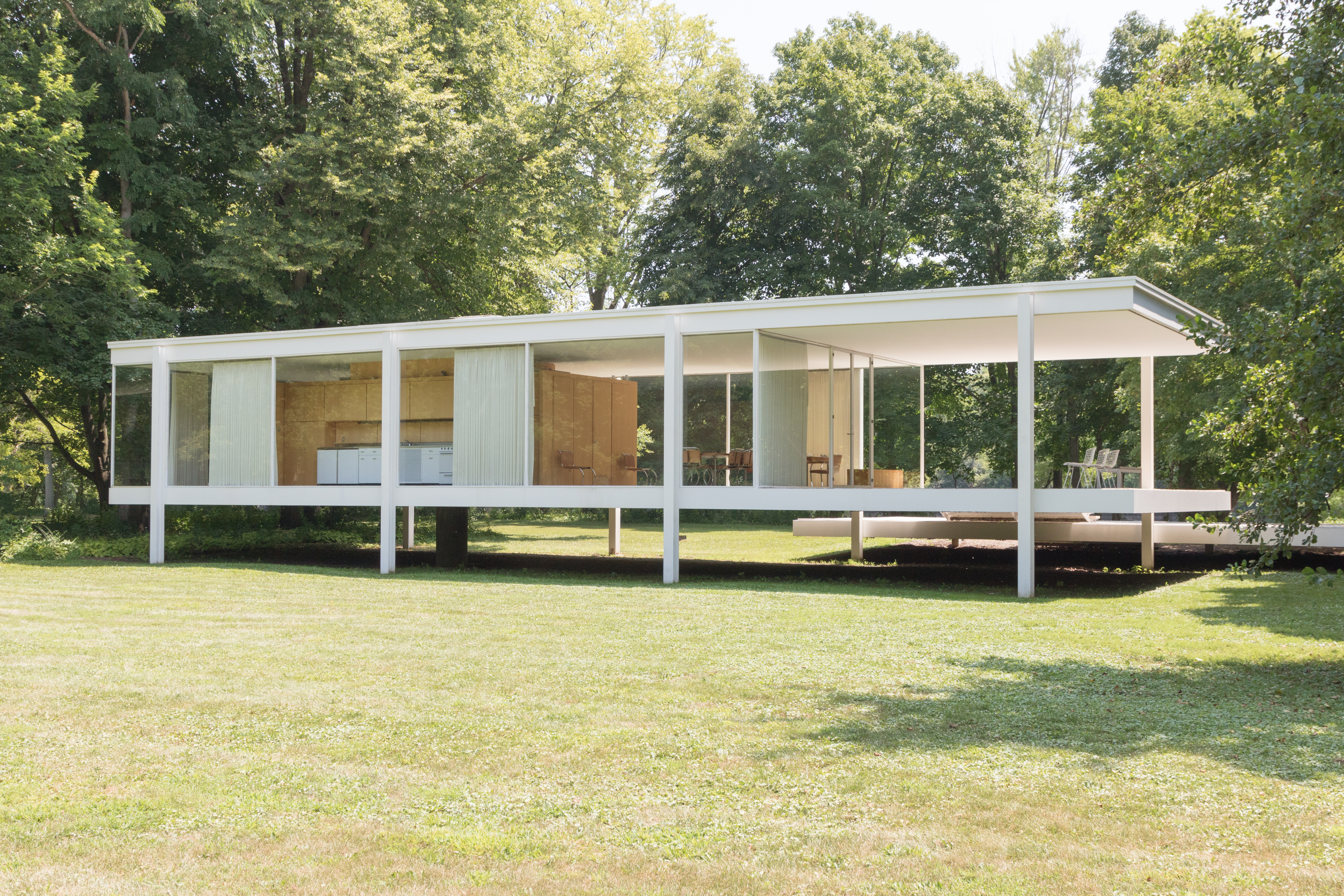 Farnsworth House, Plano, Illinois.